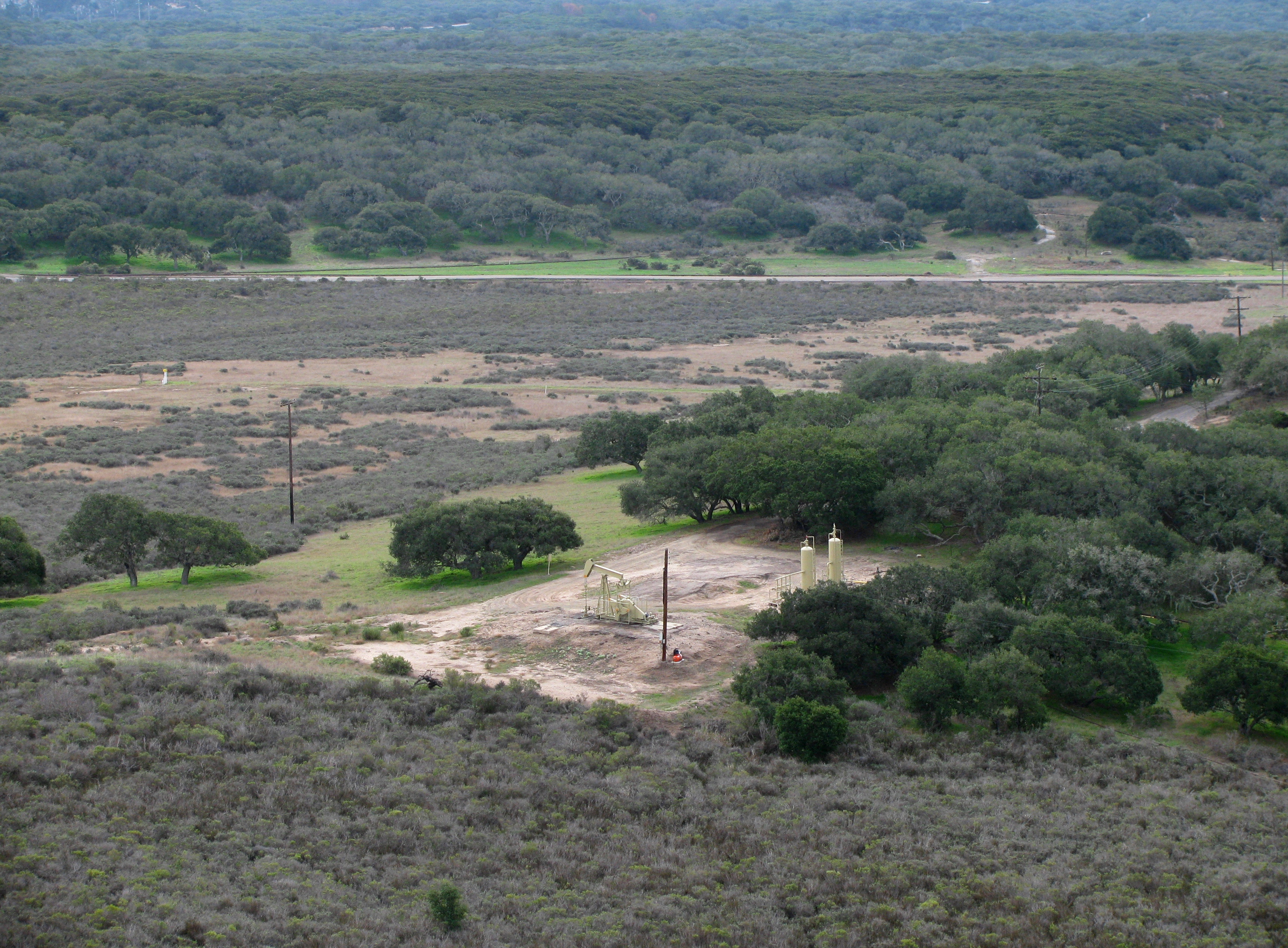 View into the Lompoc Oil Field, California, showing a solitary Plains pumpjack.